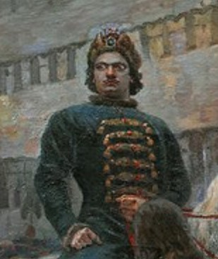 Detail of the painting "Morning of streltsy's beheading" by Vasily Surikov (1881)